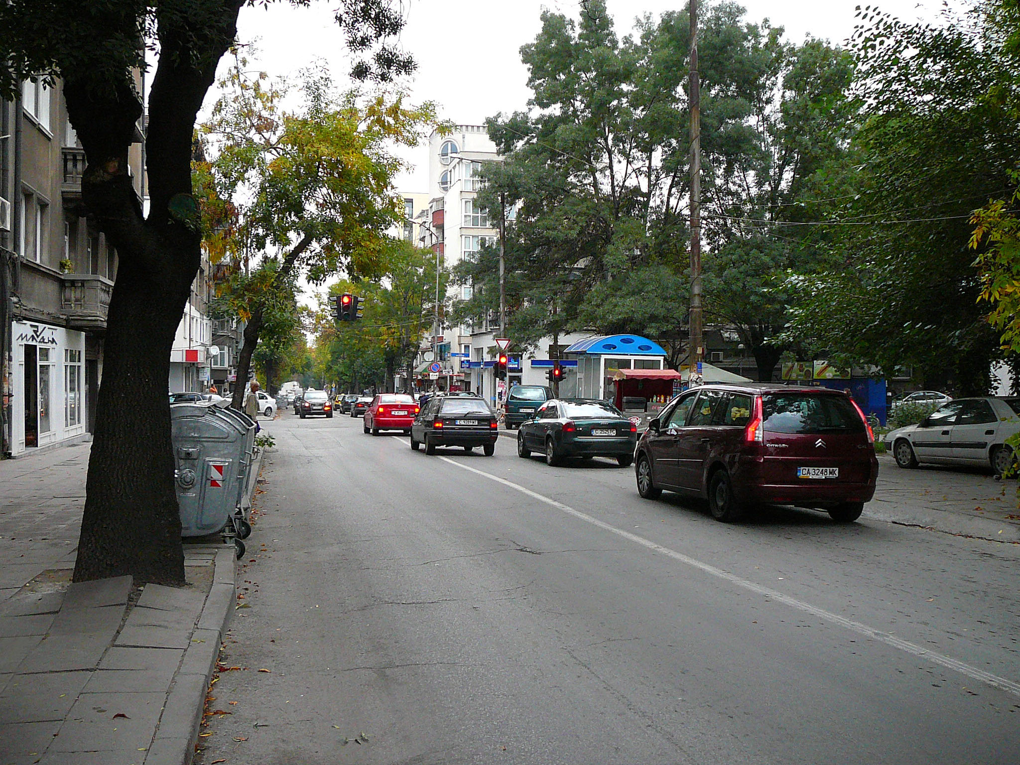 Cherkovna Str. (Sofia, Bulgaria)